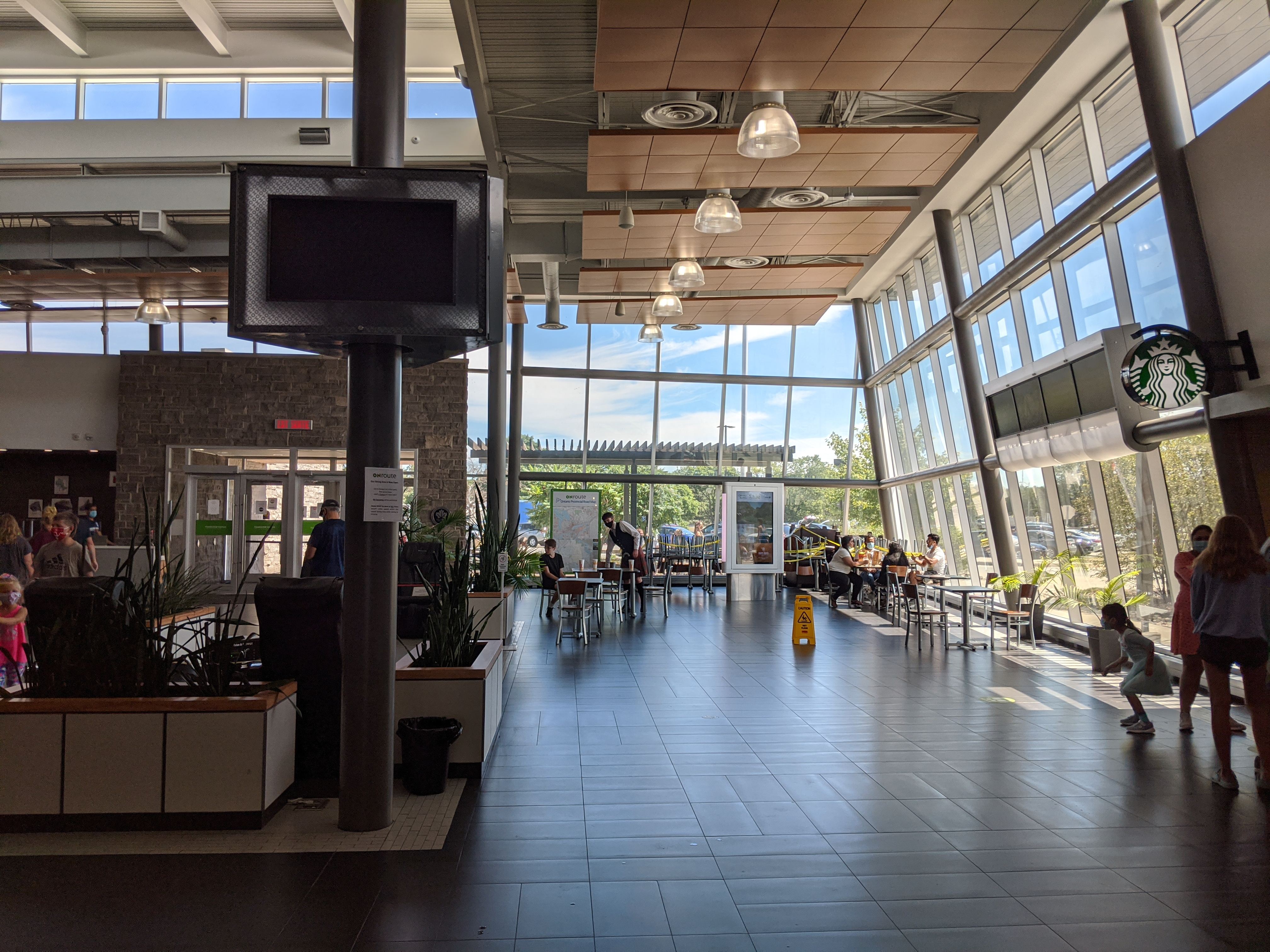 ONRoute Cambridge North Interior